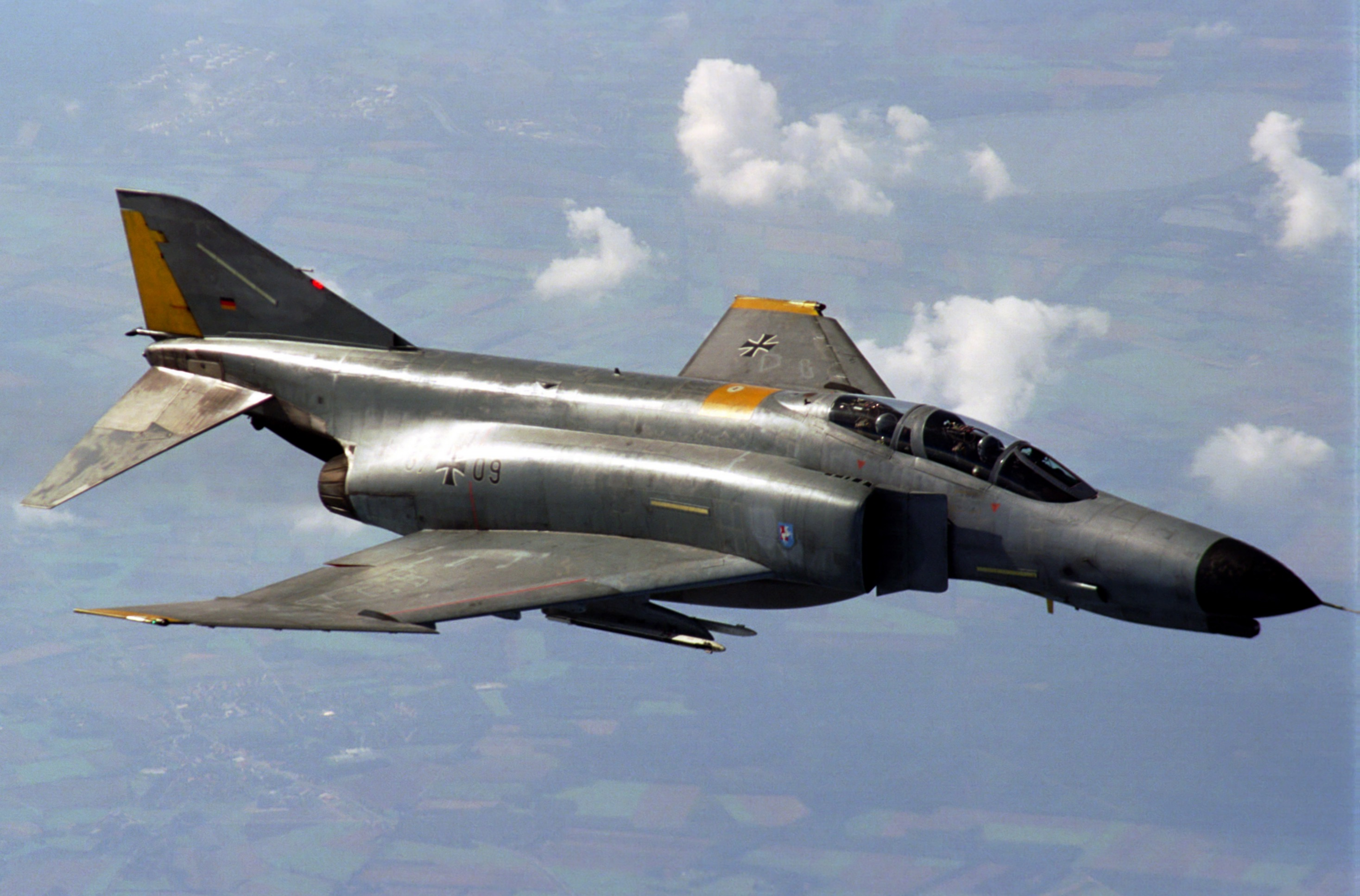 A German Luftwaffe McDonnell Douglas F-4F Phantom II aircraft (s/n 37+09) from the Jagdgeschwader 72 Westfalen (72nd Fighter Wing) flies a refueling mission near Royal Air Force (RAF) Mildenhall (UK), 16 October 1997. The JG 72 was based at Hopsten air base, Nordrhein-Westfalen (Germany).